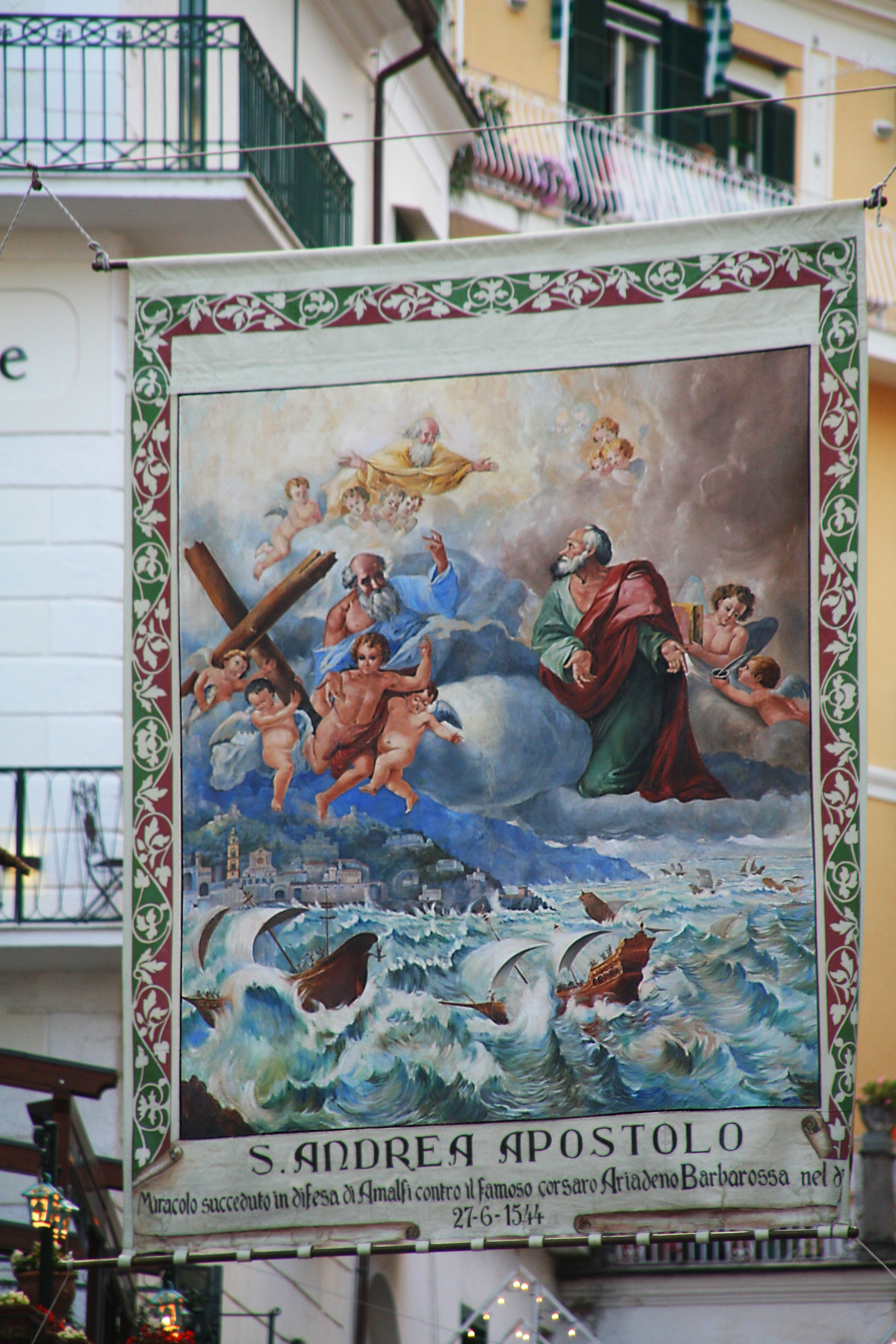 Canvas depicting St. Andrew's miracle occurred on 27 June 1544